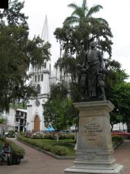 plaza